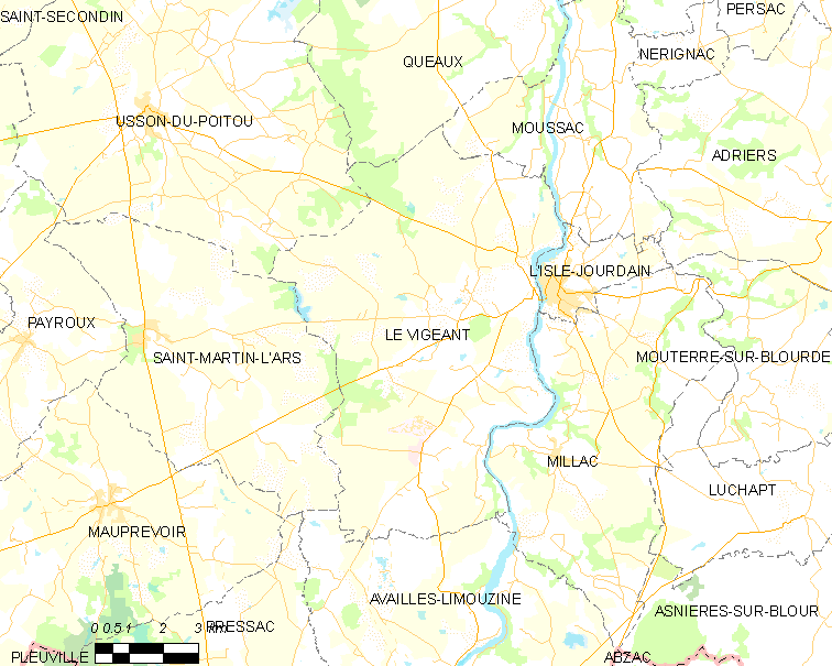 Map of French municipality Le Vigeant